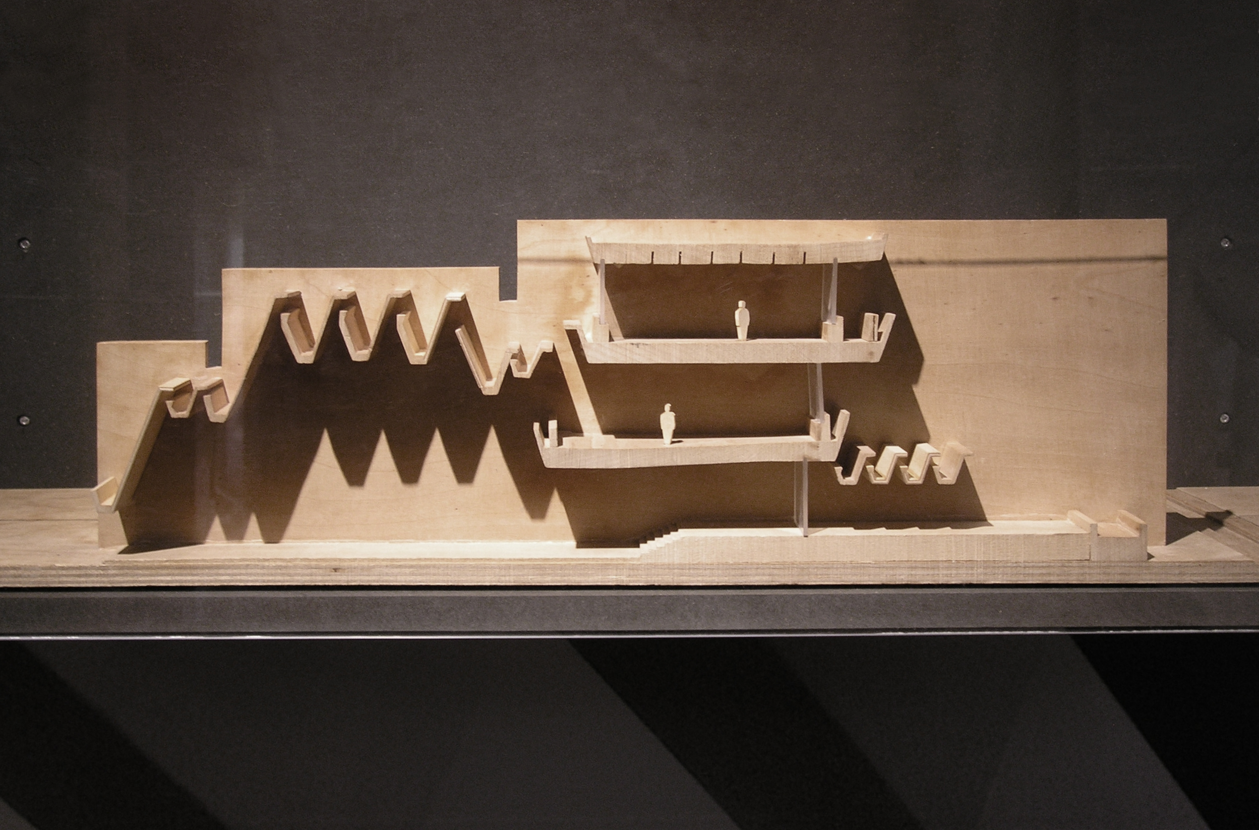 model of bank melli iran, university branch, enghelab street, tehran, iran, 1959-1962, from the 2008 utzon exhibition in palazzo franchetti, venice. architect: jørn utzon (1918-2008) with hans munk hansen (b.1923).